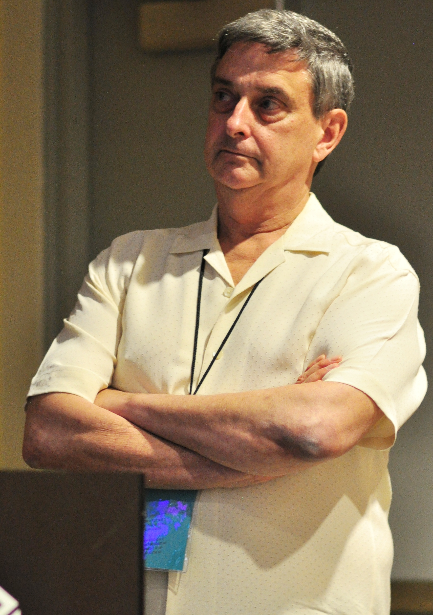 John Whittier Treat on the "Getting Under the Covers with Japanese Pop" panel, Saturday, April 18, 2015, Pop Conference 2015. Learning Labs, EMP Museum, Seattle, Washington.